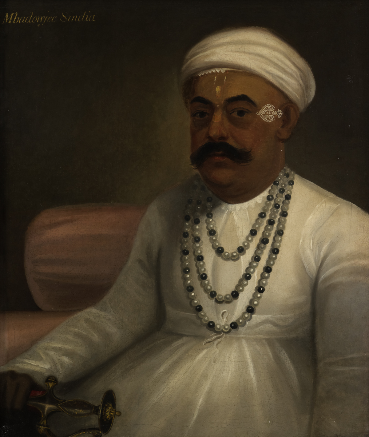 Mahadaji Sindhia by James Wales